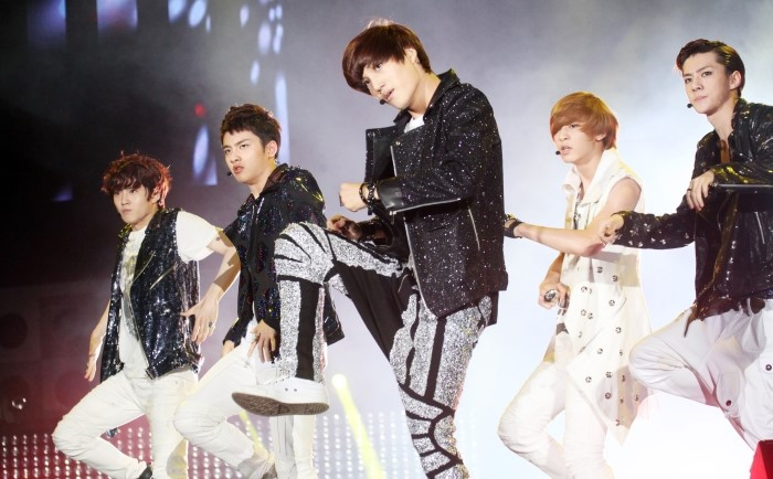 12 July 2012 Pop Festival in Yeosu.Português do Brasil: 12 de julho de 2012, Pop Festival em Yeosu.